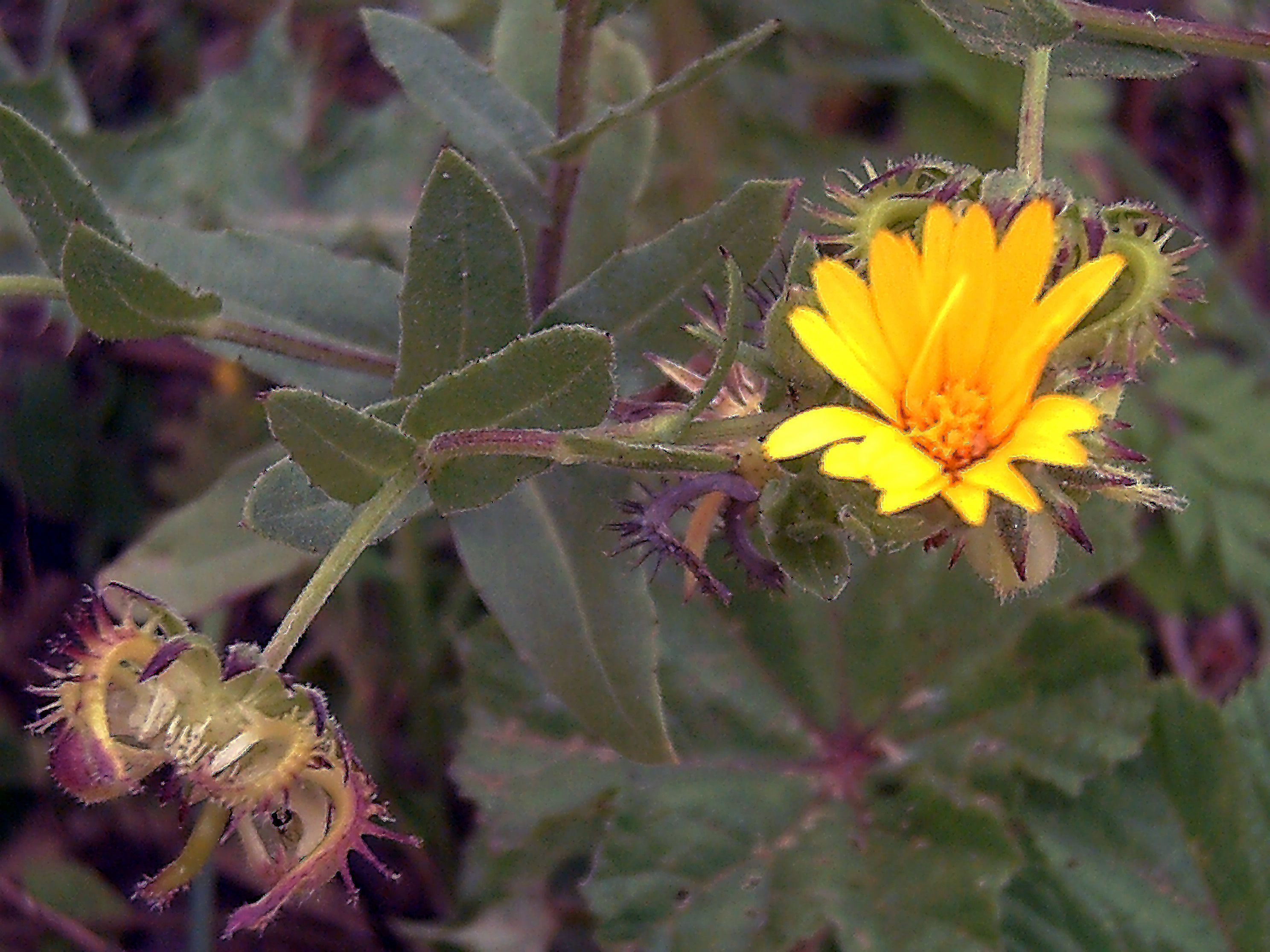 Calendula arvensis Inflorescence Closeup and fruits, in Sierra Madrona, Spain